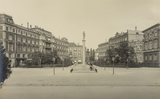 Dantes Plads in Copenahgen, Denmark